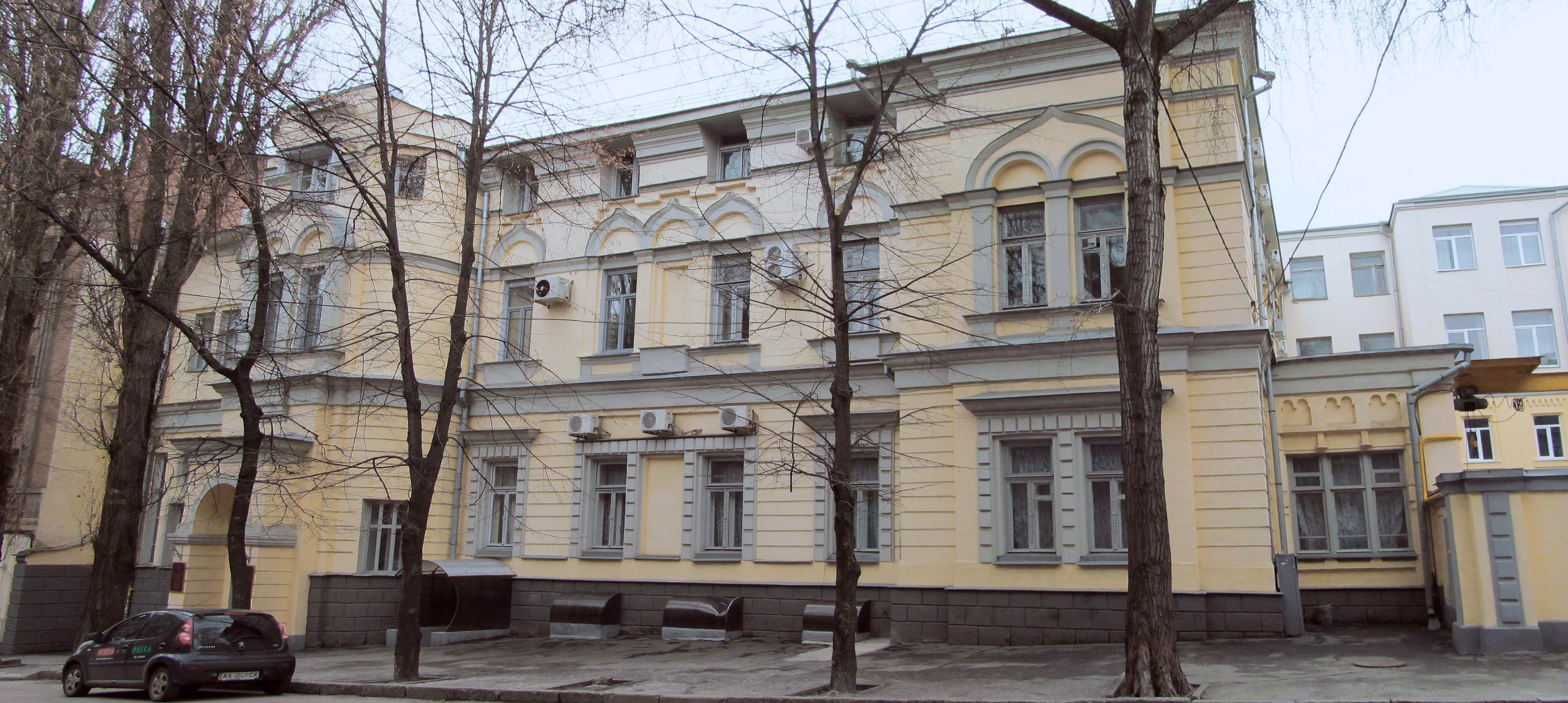 Kulykivsky Descent, 12, Kharkiv, Ukraine. Panorama.